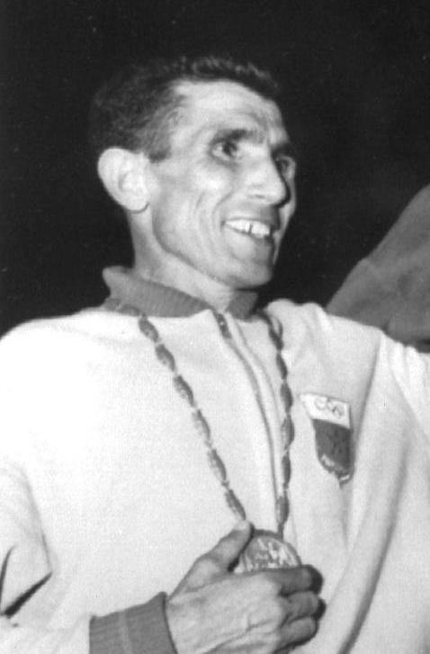 Rhadi Ben Abdesselam at the 1960 Olympics